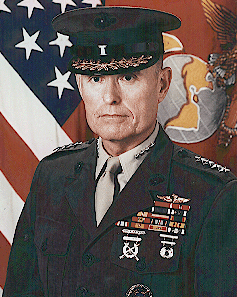 General Carl E. Mundy, USMC, Commandant of the Marine Corps